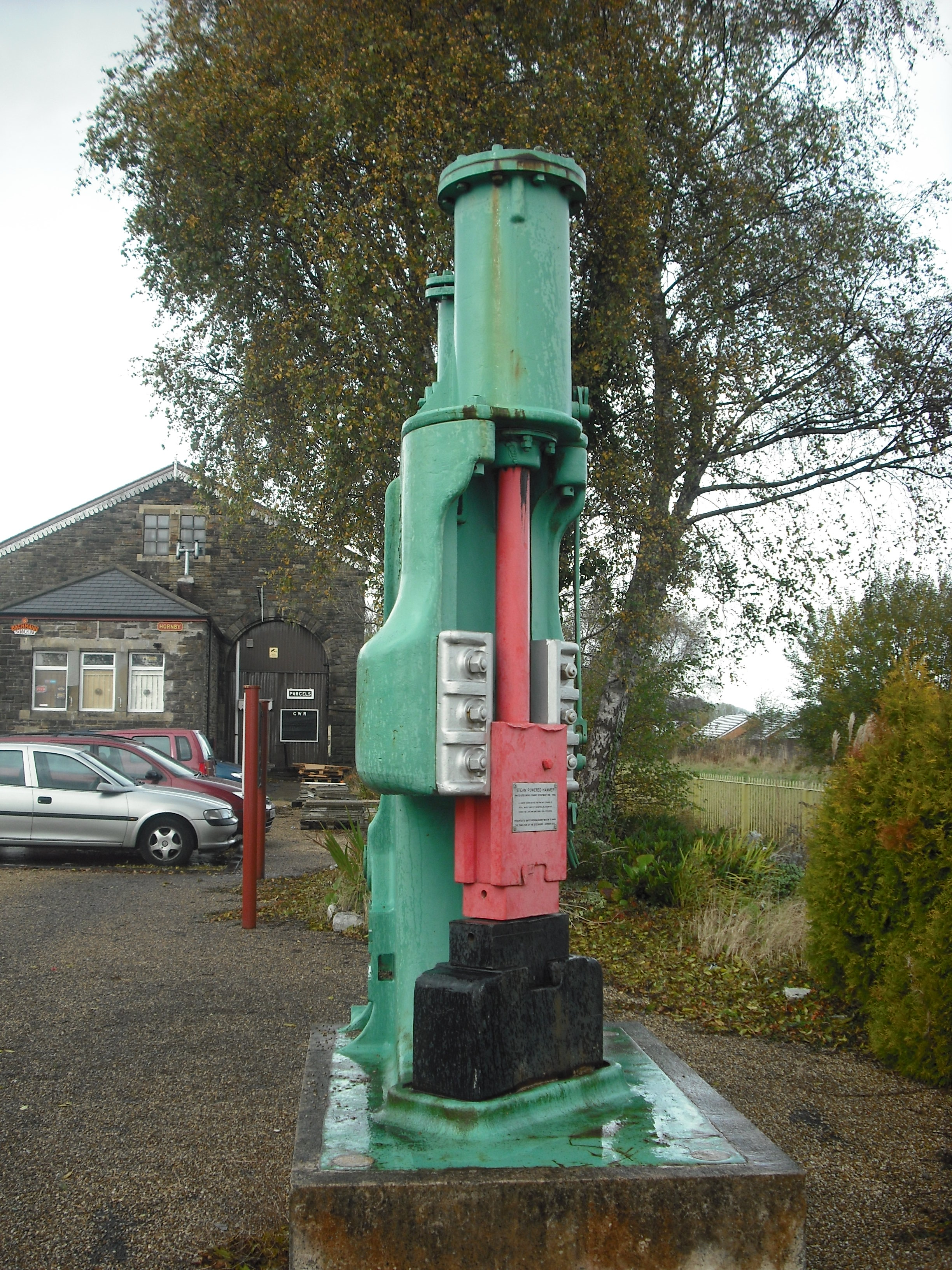 Massey self contained 7cwt pneumatic hammer at Griffithstown Railway Museum